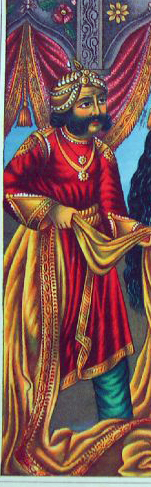 Album of popular prints mounted on cloth pages. Colour lithograph, lettered, inscribed and numbered 18. Draupadi, the wife of all five Pandava brothers in the Mahabharata, is presented to a parcheesi game where Yudhishthira, the king of Hastinapura, had gambled away all his material wealth. He offered his wife in a bet; Draupadi prays to Krishna for protection while a court attendant attempts to remove her sari. This event was one of several instigating factors in the Mahabharata war.